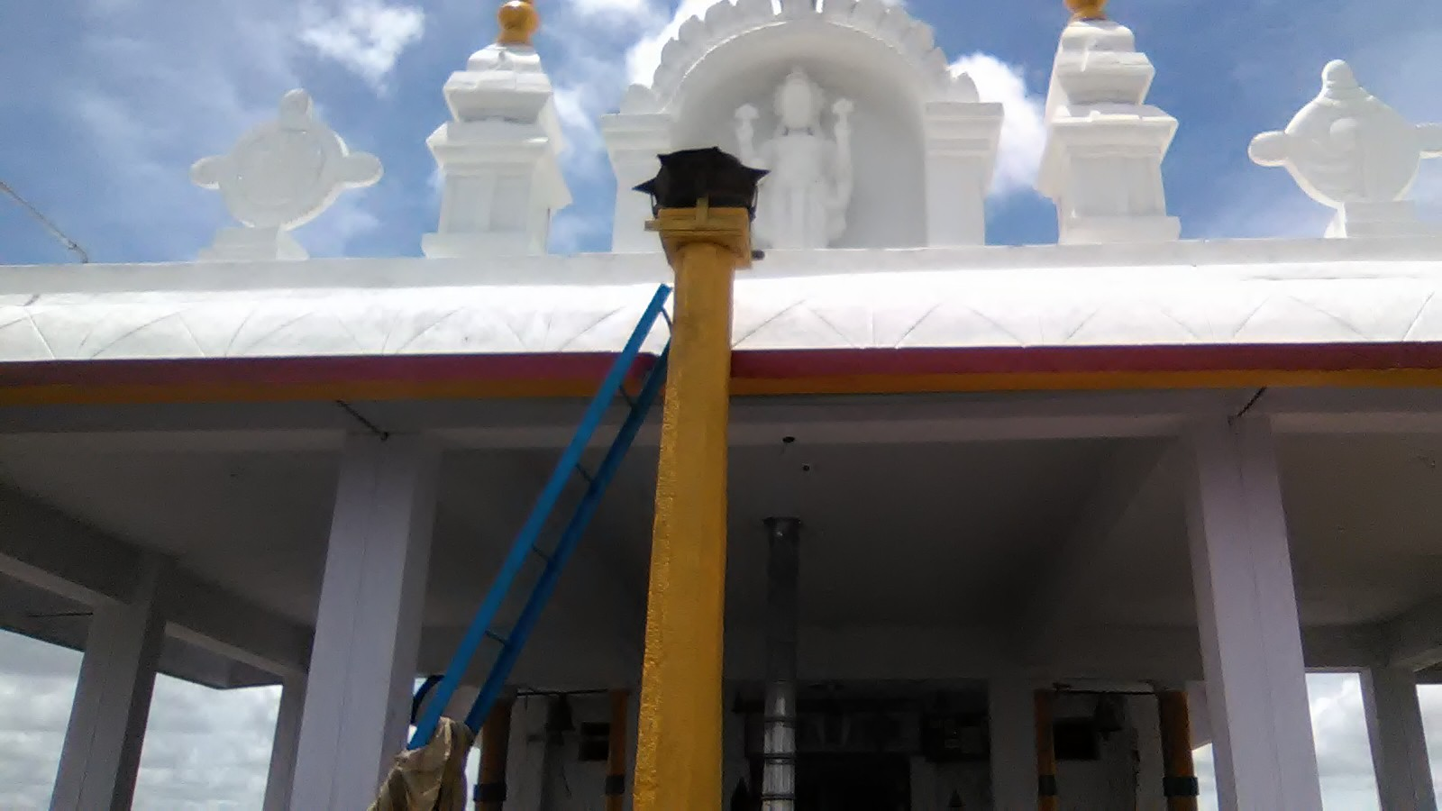 பாலகொண்டராயசாமி கோயில் முகப்பு